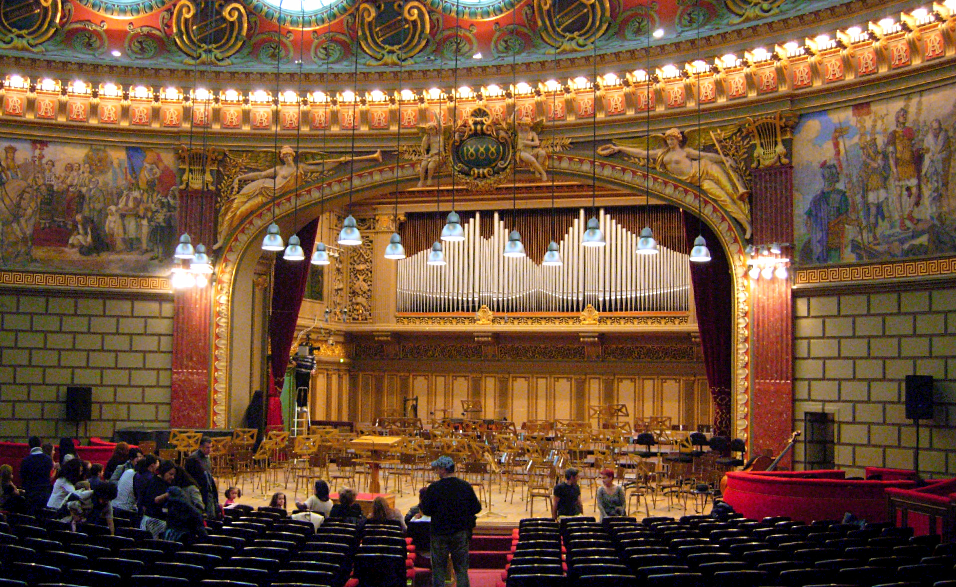 Stage of the Ateneul Român in Bucarest